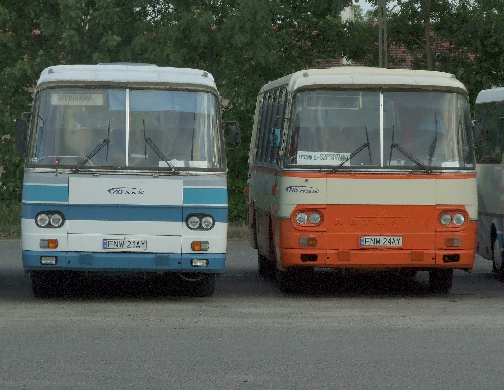 Two Autosan H9-21 buses (from left: #Z80589, reg. FNW 21AY, built 1988; and reg. FNW 24AY) from PKS Nowa Sól (P.t. Szprotawa) in Lubusz Voivodeship, Poland.